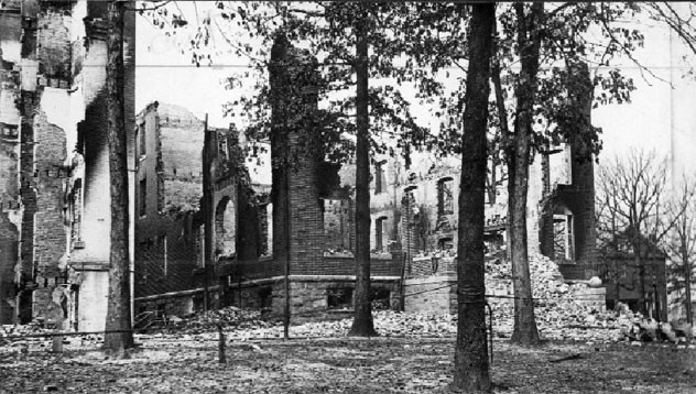 The Diamondback, University of Maryland archives [1] This picture is from the Maryland Archives, taken in 1912. I am unsure if it was published then. It was reprinted in an October 2005 edition of the school newspaper. I cropped and resized the original image. Image created prior to 1923.